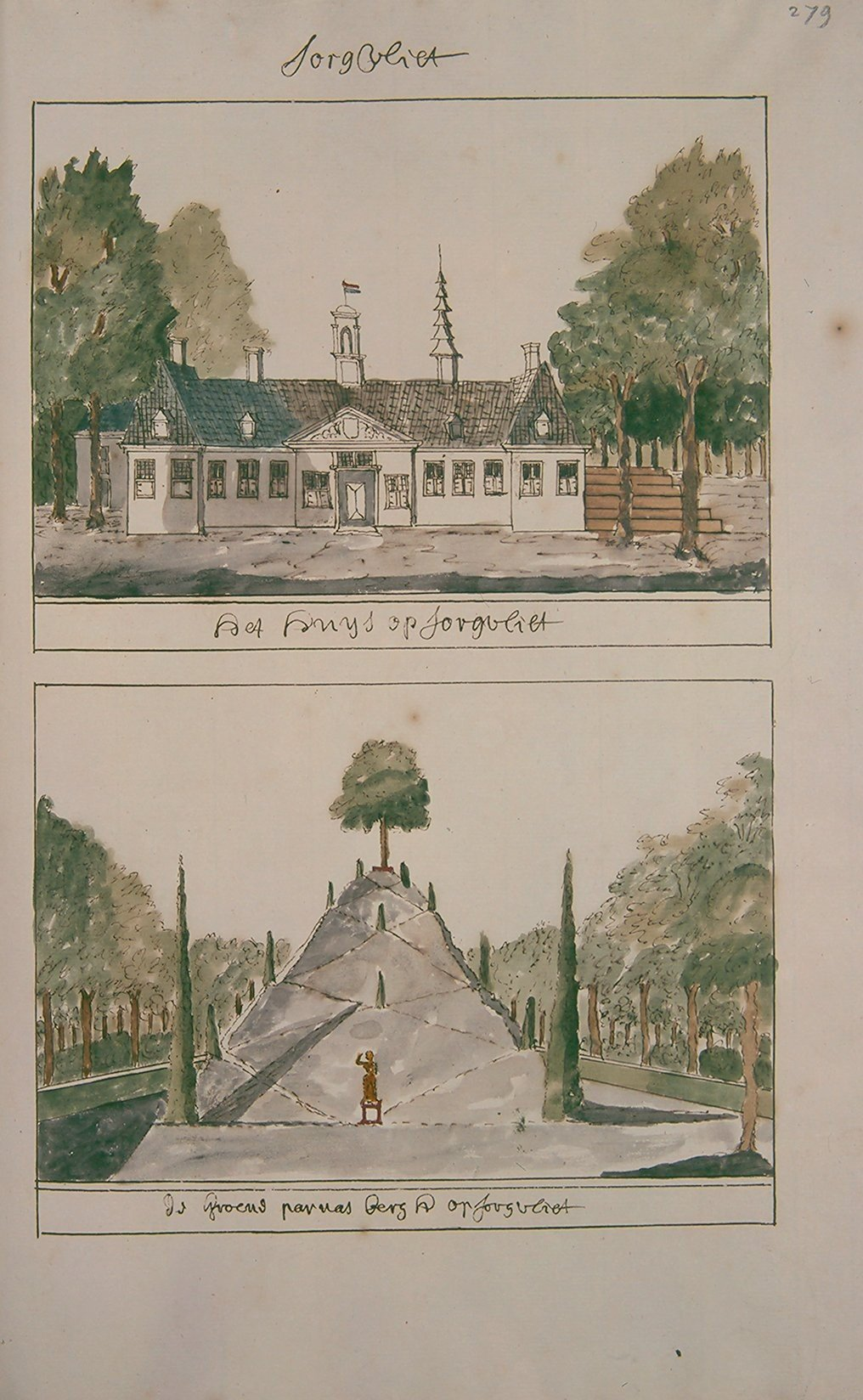 Sorghvliet, later known as the Catshuis, official residence of the prime minister of the Netherlands. Lower draw is the Parnassusberg, a hill in the garden.